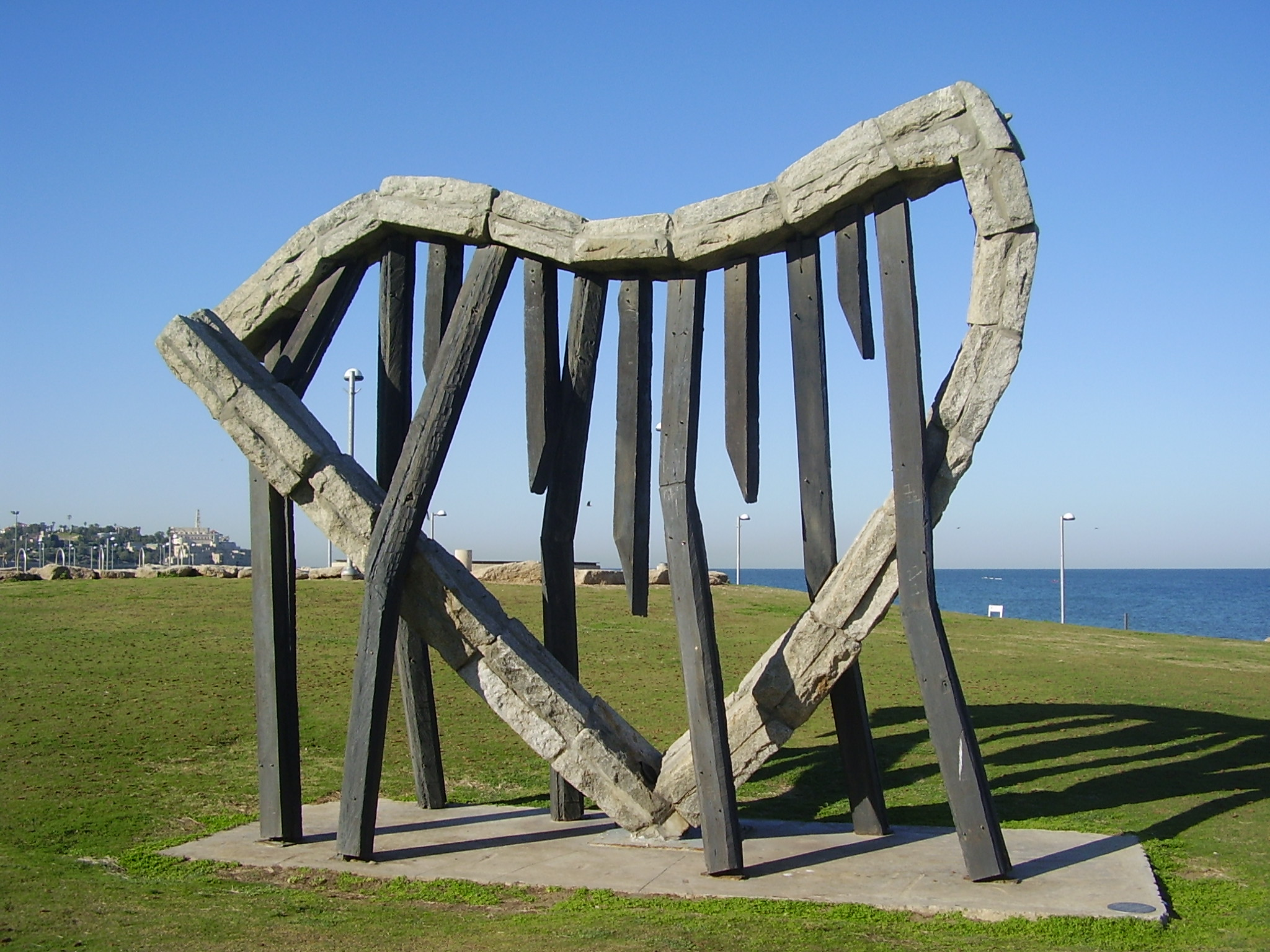 Harp, Sea and the soft wind by Ilan Averbuch in Charles Clore park, Tel Aviv